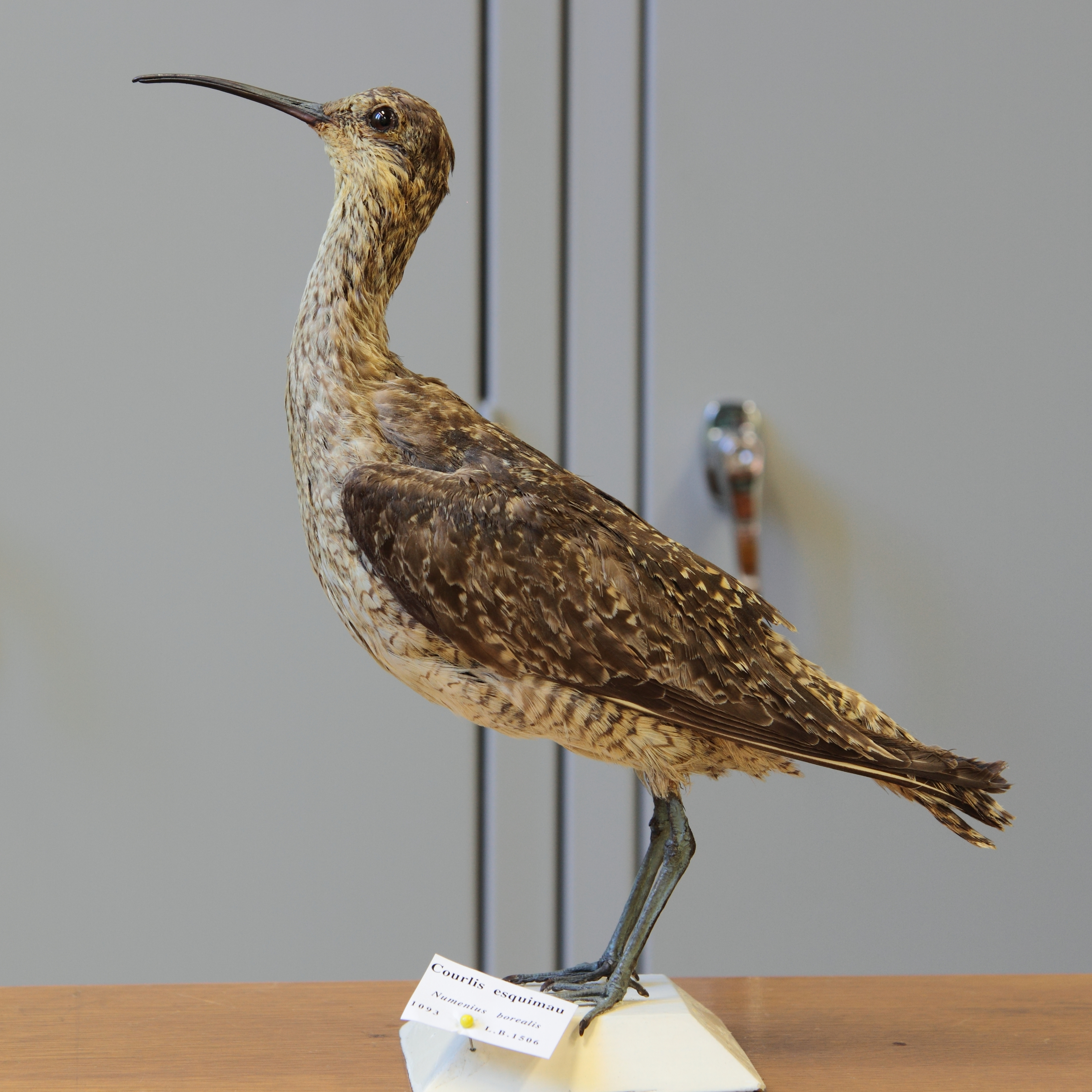 Taxidermied Eskimo Curlew. Teaching and research collections, Laval University Library.